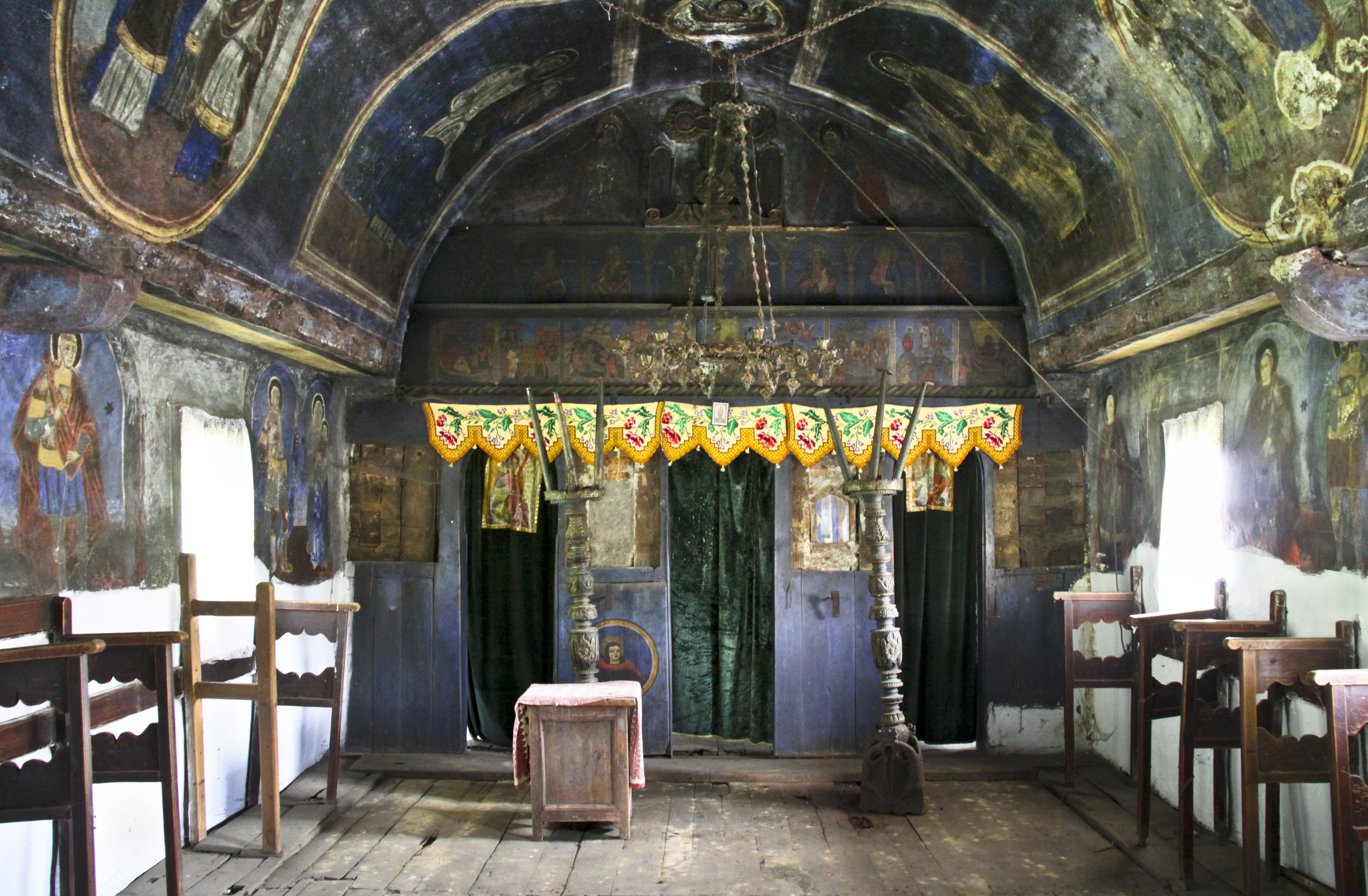 Robaia, Argeş county, Romania: the wooden church.